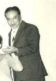 Osvaldo Canónico- actor argentino